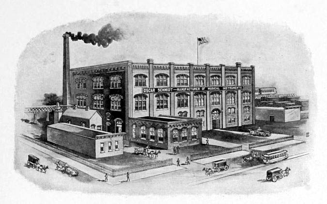 View of the Oscar Schmidt factory on Ferry street, Jersey City.